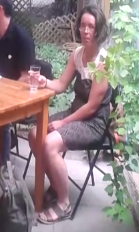 Marie-Andrée Gill photographed in Montréal, Québec, Canada.